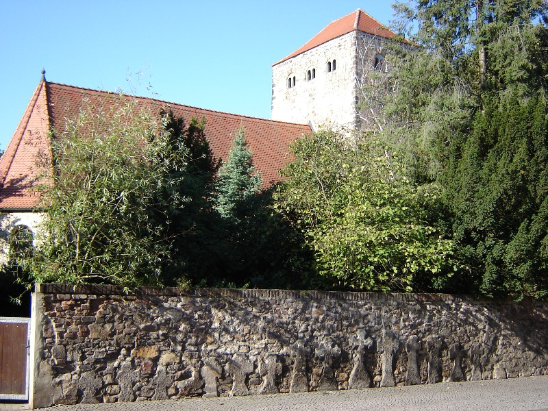 Church St. Briccius Magdeburg